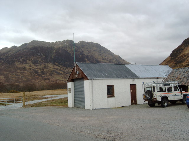 Kintail Mountain Rescue Station The Kintail Mountain Rescue Team is based at Morvich, Kintail and provides mountain rescue cover for a large area of the North West Highlands of Scotland.